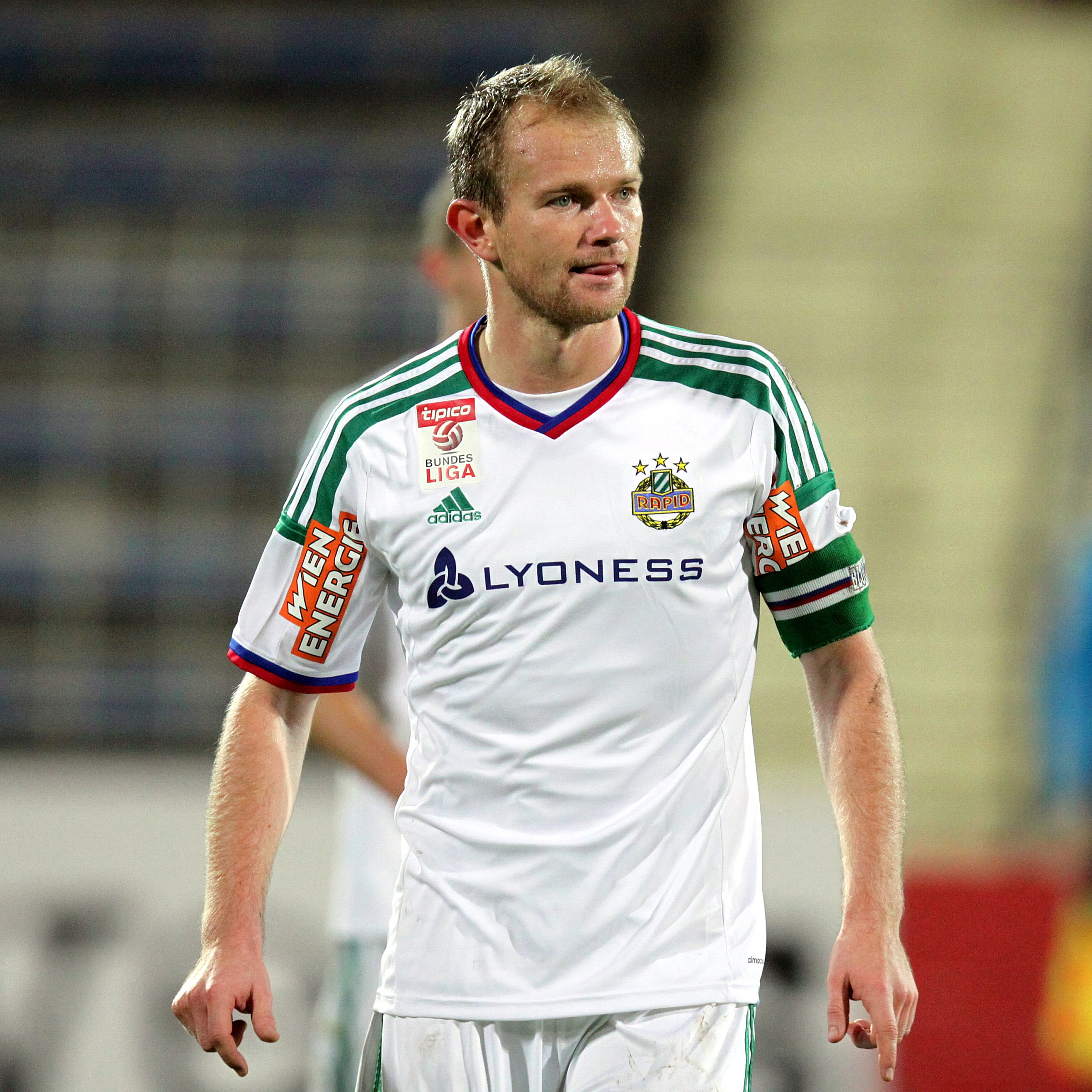 Match of the Austrian Football Bundesliga – FC Admira Wacker Mödling (red shirts) vs. SK Rapid Wien (white shirts) 2-1 (0-1) on 2015-12-02 in Bundesstadion Sudstadt – The photo shows Mario Sonnleitner.